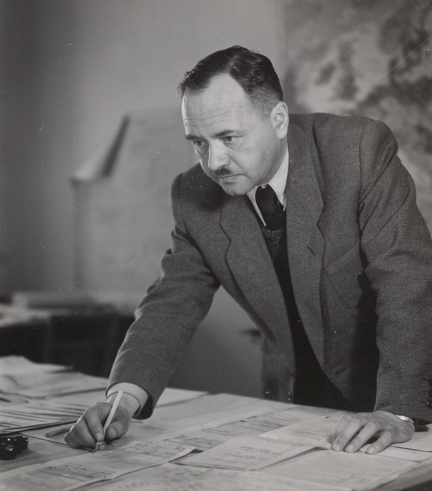 Professor Stefan Zbigniew Różycki as the director of the Polish Geological Institute, 1954